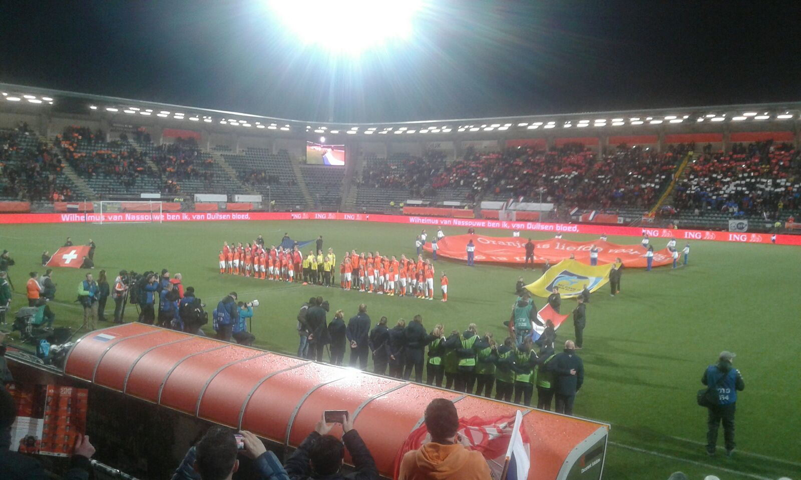 2016 UEFA Women's Olympic Qualifying Tournament NED-SUI